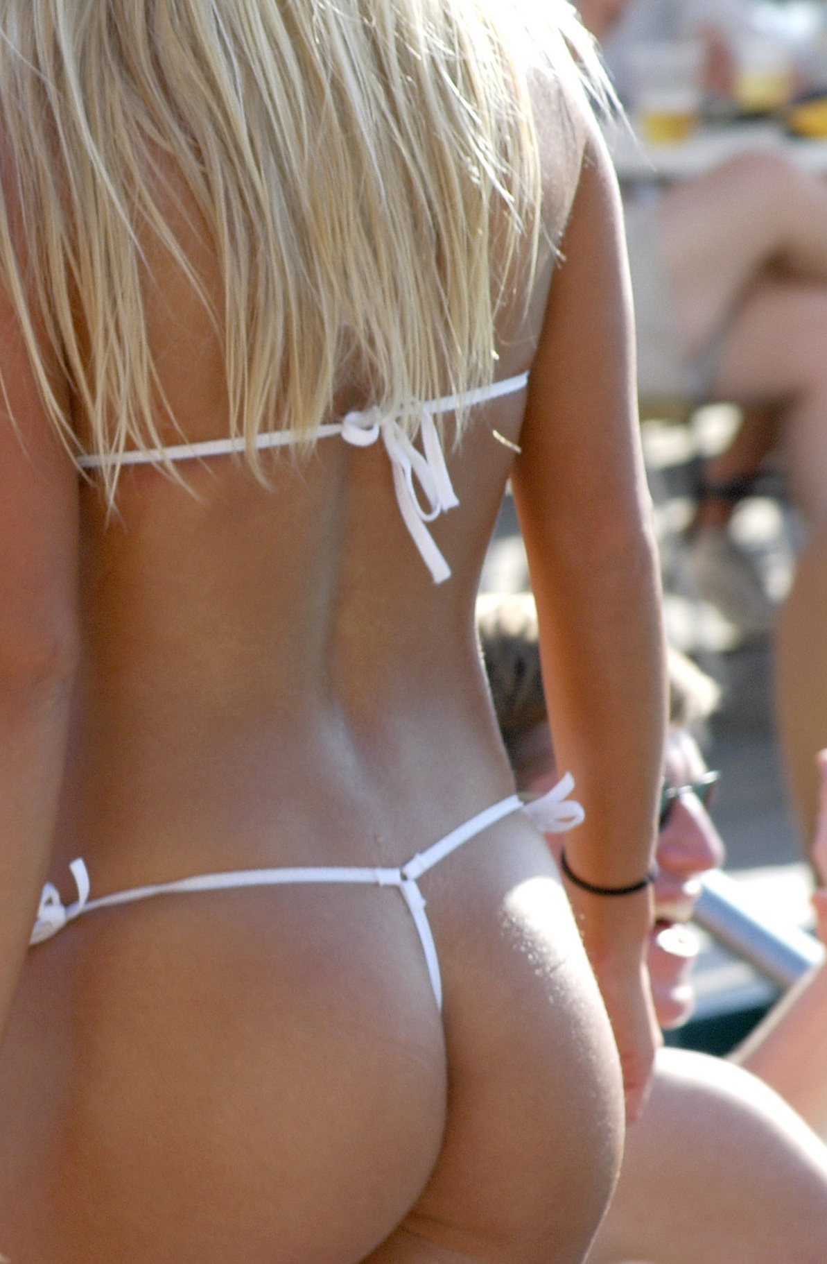 Sunrise, Florida, USA